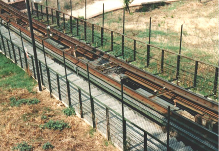 Certaldo funicular - detail